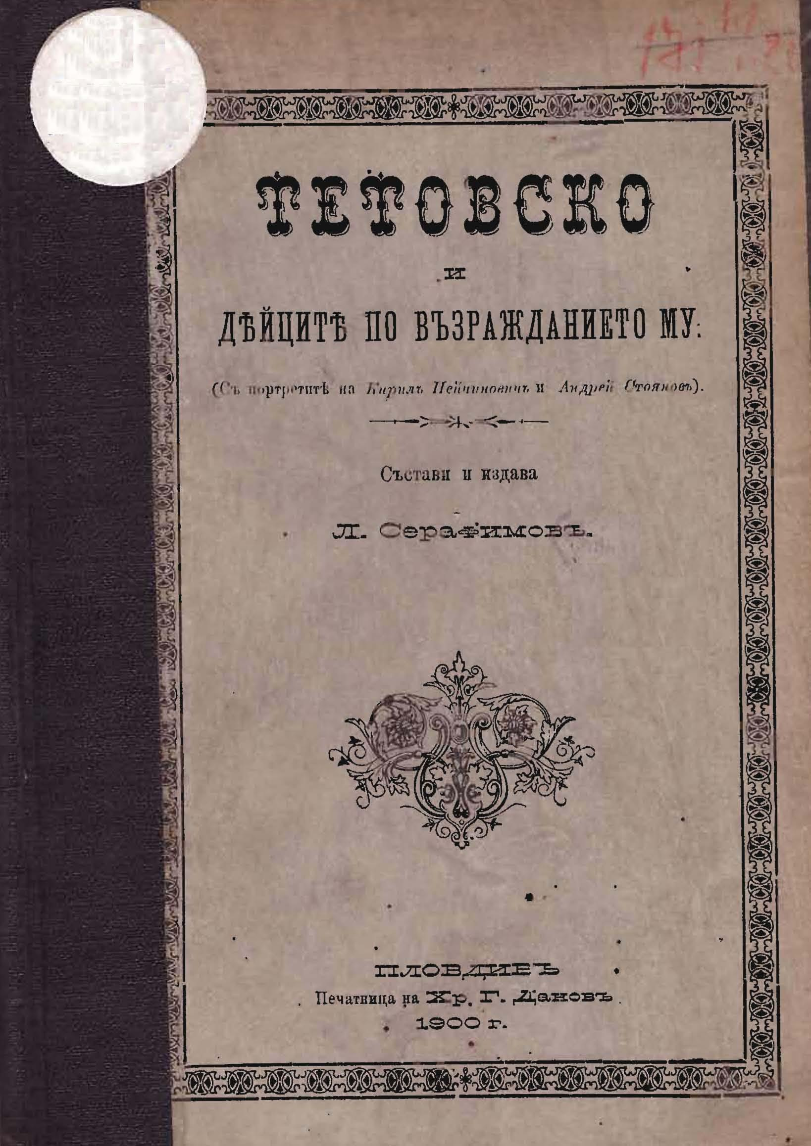 Lazar Serafimov's Book Cover "Tetovsko"